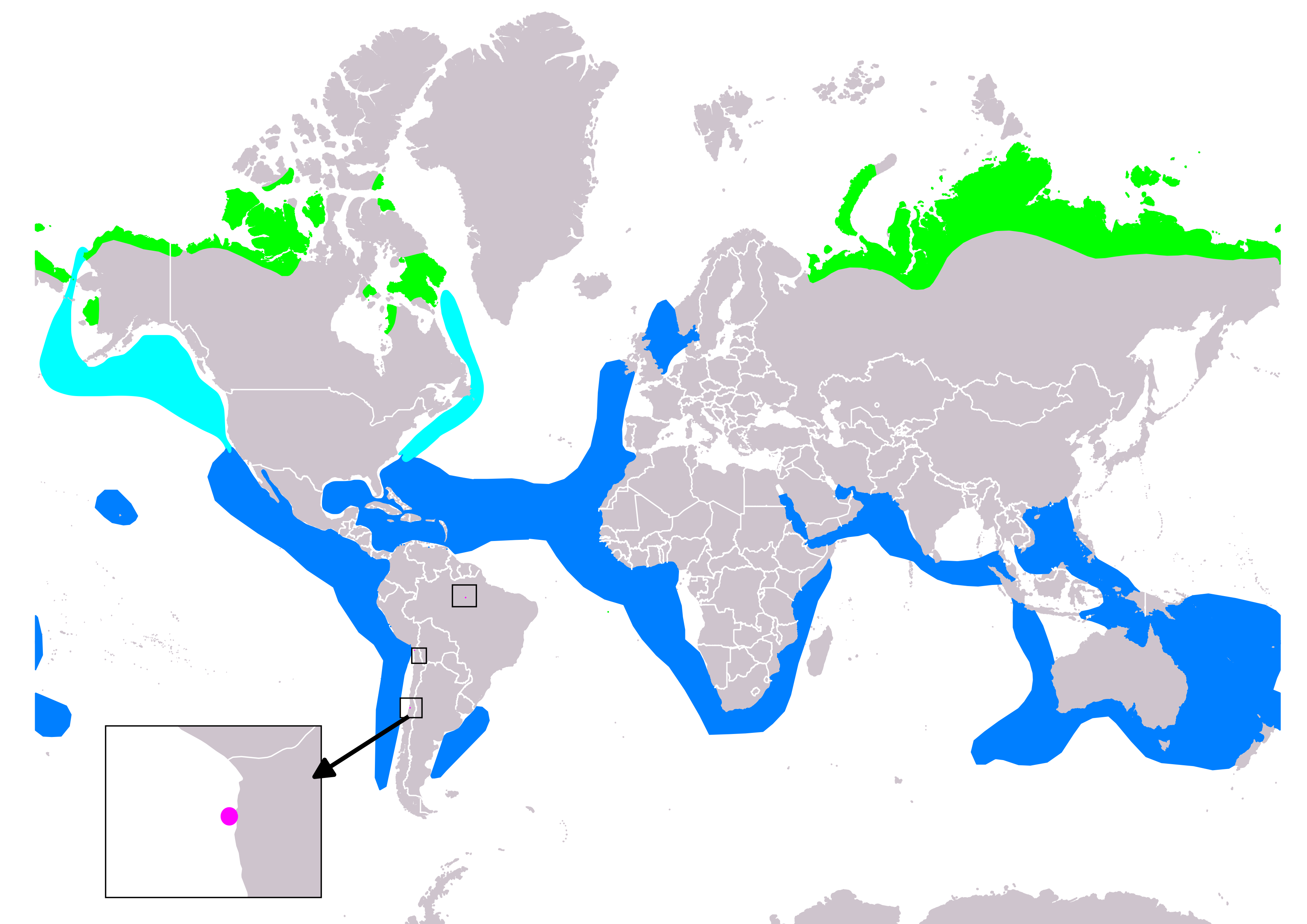 Map of pomarine jaeger (Stercorarius pomarinus) according to IUCN version 2018.2 , Legend: Extant, breeding (#00FF00), Extant, passage (#00FFFF), Extant, non-breeding (#007FFF), Extant & Vagrant (seasonality uncertain) (#FF00FF)